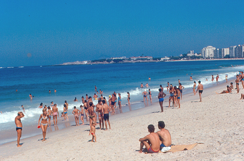 With the Atlantic Ocean.